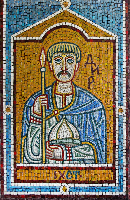 Mosaic of Dir (r.842-882)